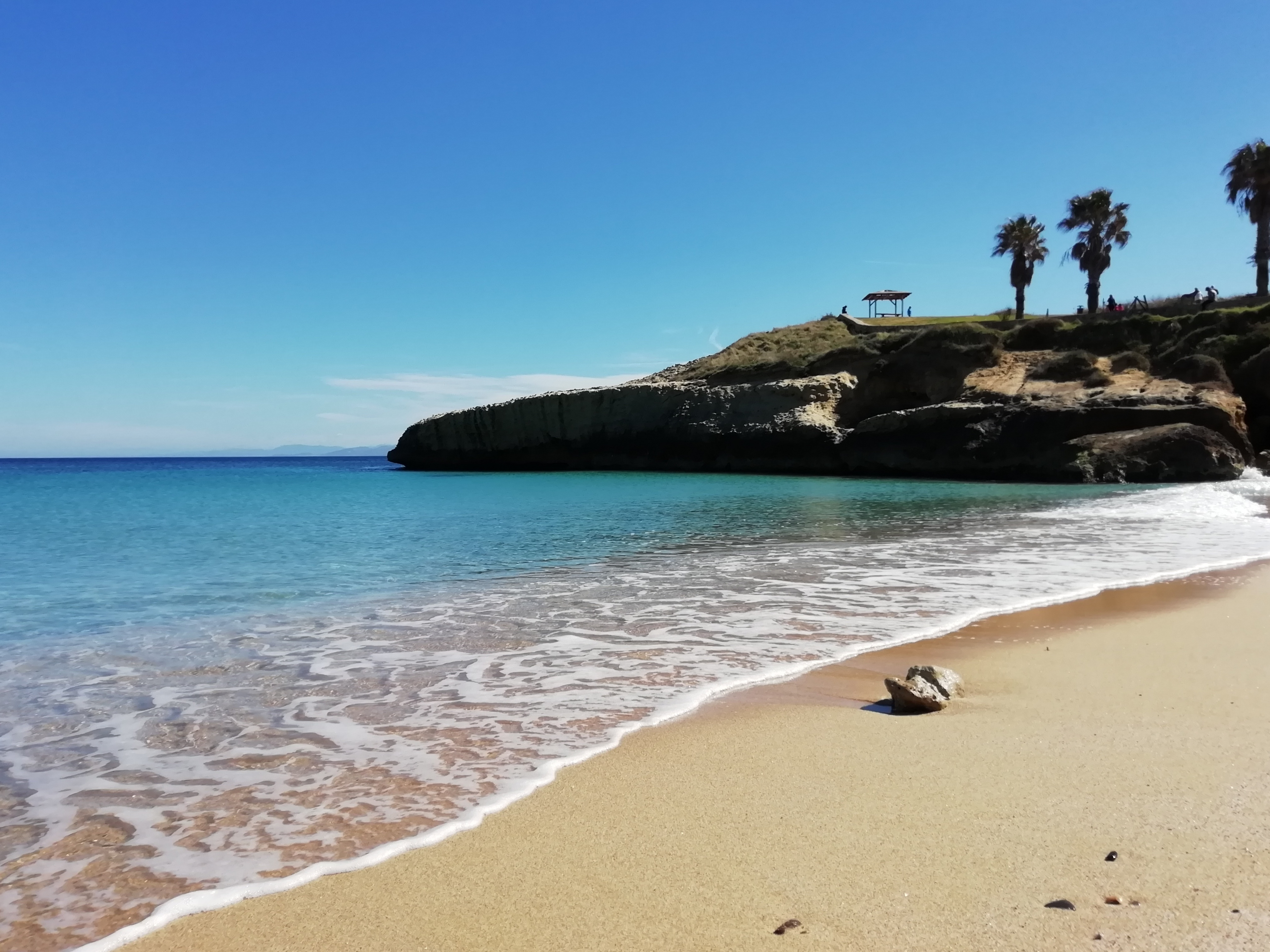 View of the Balai beach, in Porto Torres, Sardinia